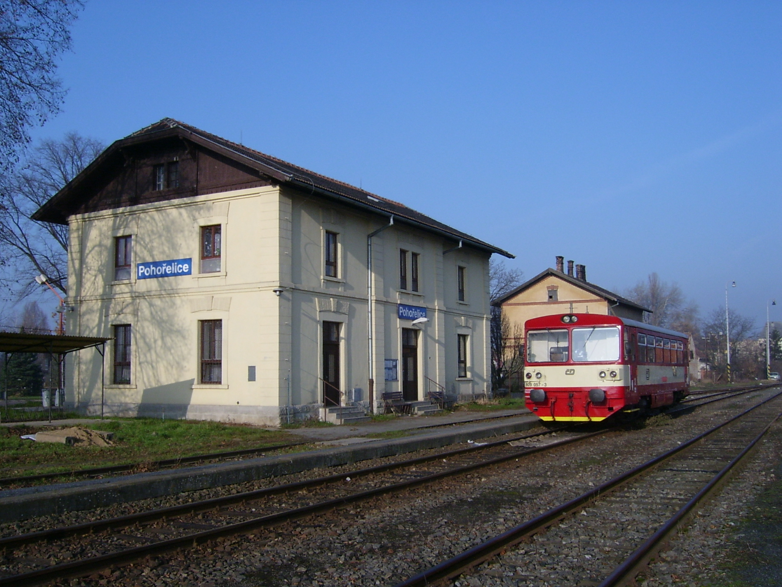 Diesel railcar 809-057 in Pohořelice, Czech Republic